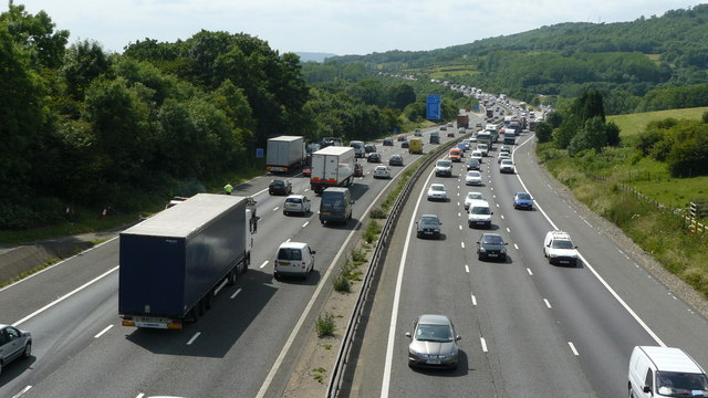 M25 Motorway, Near Godstone